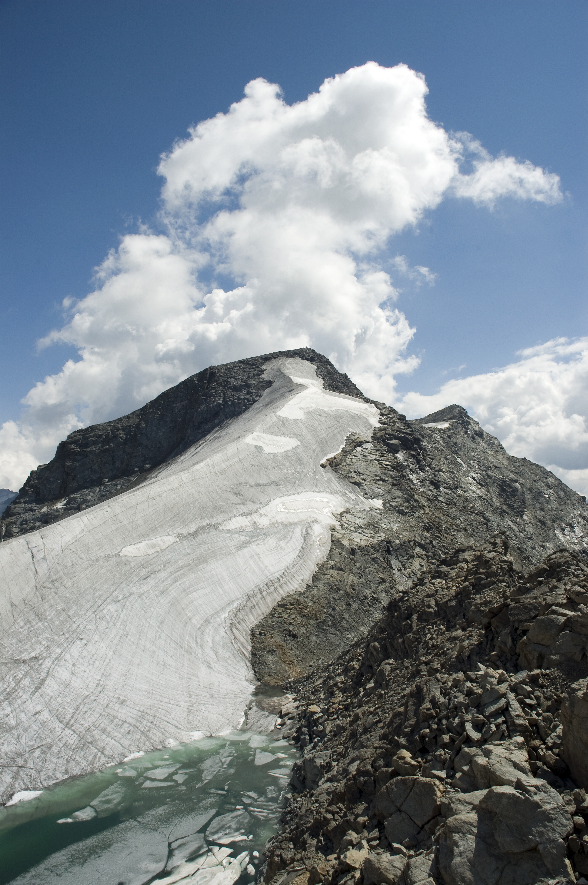 View of the Corvatsch.